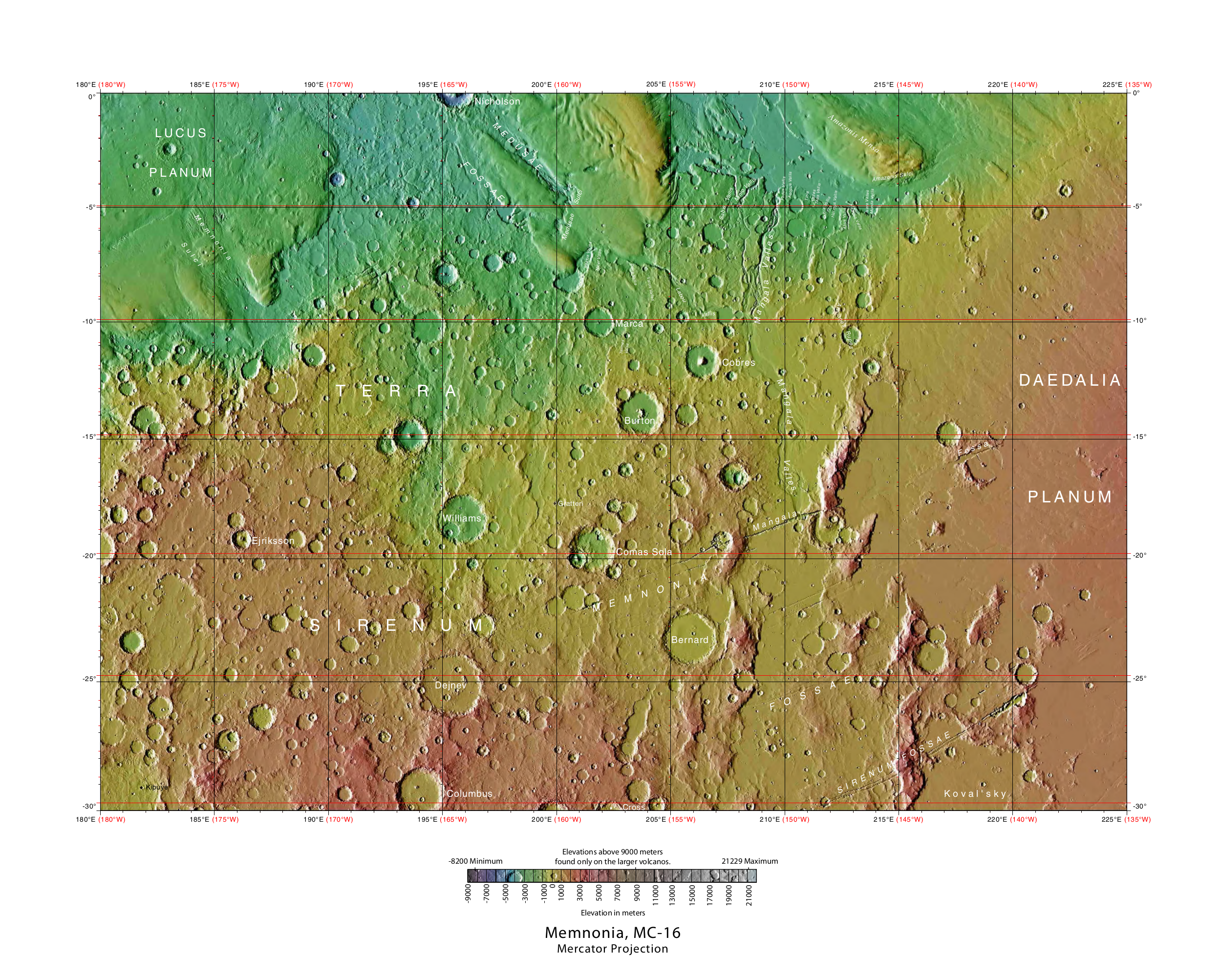 MOLA Topographic Map of Memnonia Quadrangle (MC-16) on the planet Mars. NOTE: Converted the original PDF file to a PNG File (via GIMP v2.8.4 program) - and uploaded to Wikimedia Commons.